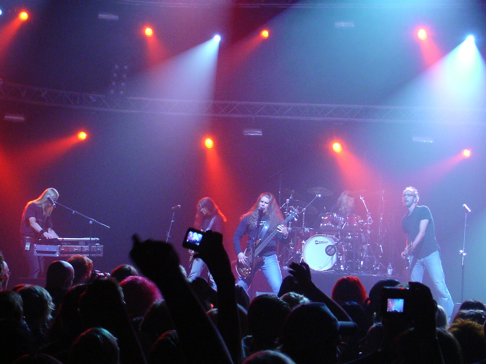 The Rain in Ristirock 2007